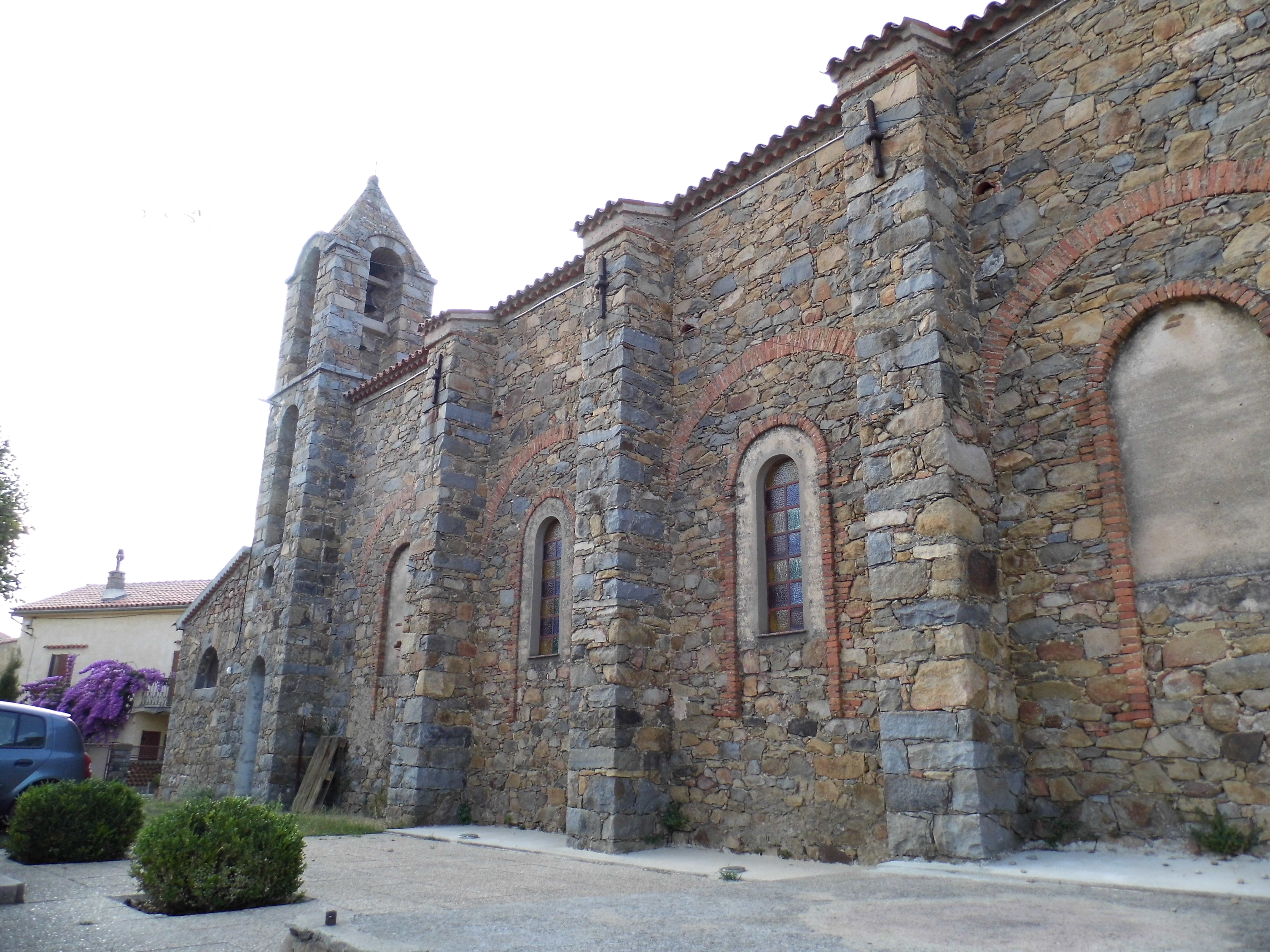 Sari village church, Sari-Solenzara, Corsica